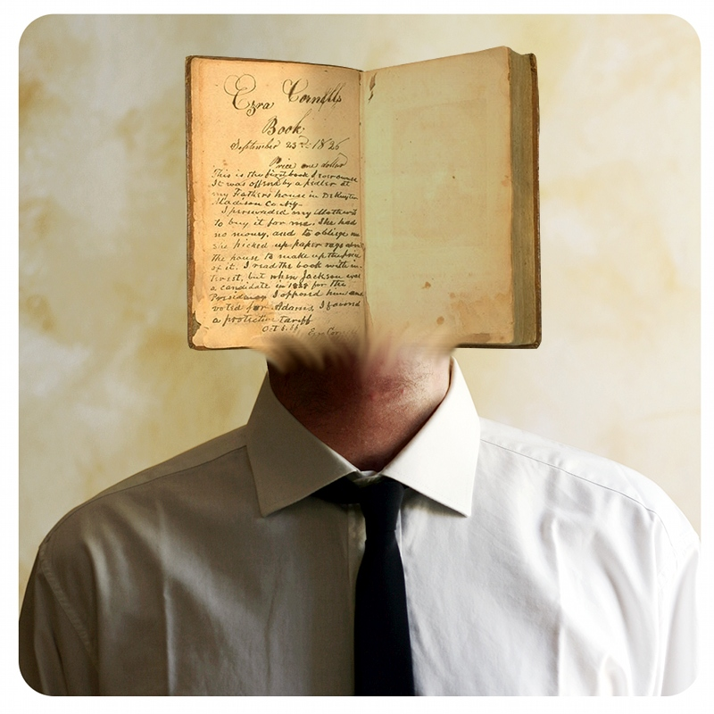 The Facebook Man. Facebook is celebrating its 150 millionth user. Don't count on me: I have closed my account! (Post-production made with the free software Gimp.)